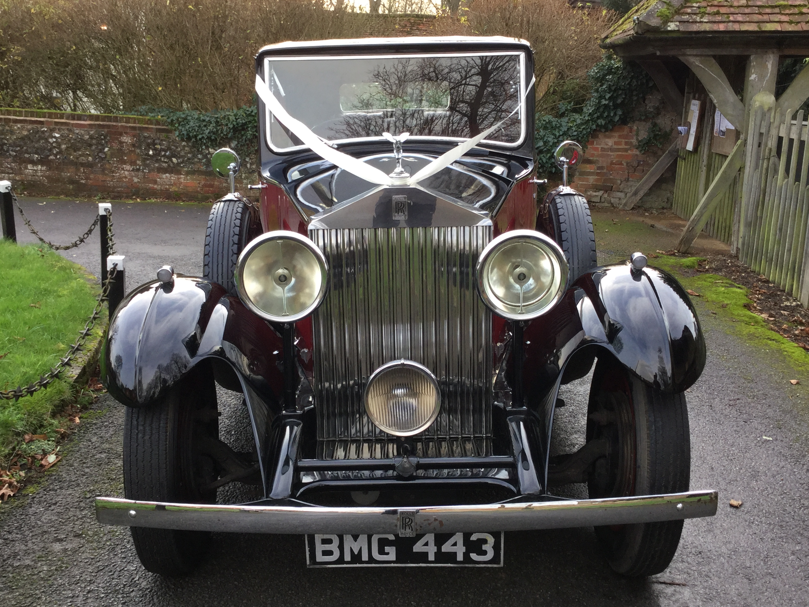 BMG443, Rolls Royce 20/25